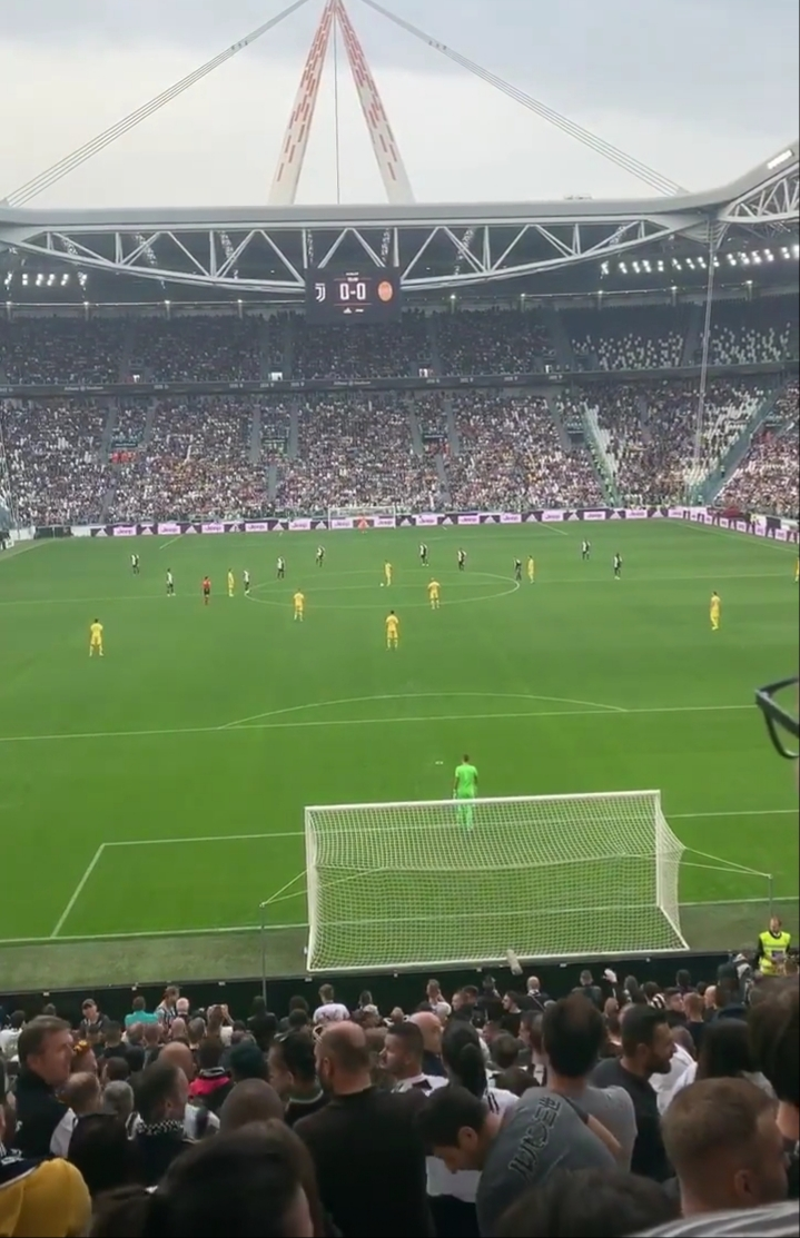 Turin (Italy), Allianz Stadium, September 21, 2019. Juventus F.C. — Hellas Verona F.C. 2-1, Matchday 4 of the Italian League 2019–20 Serie A